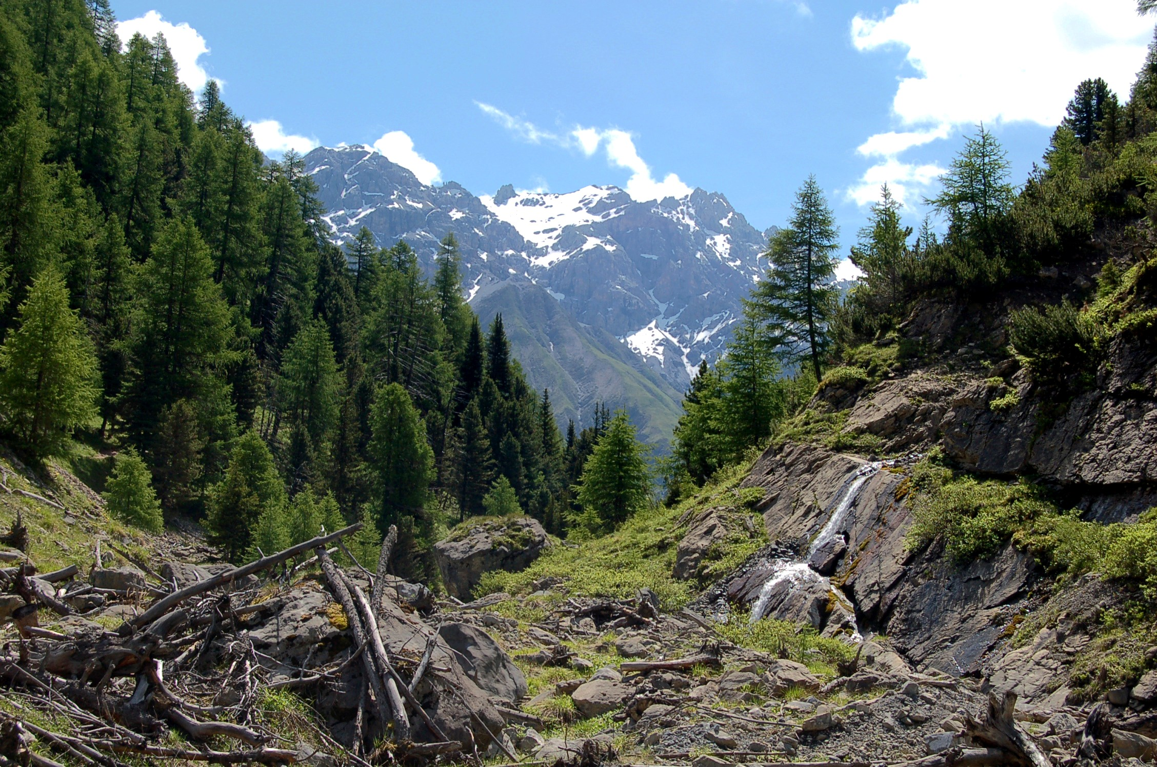 Val Trupchun, Swiss National Park